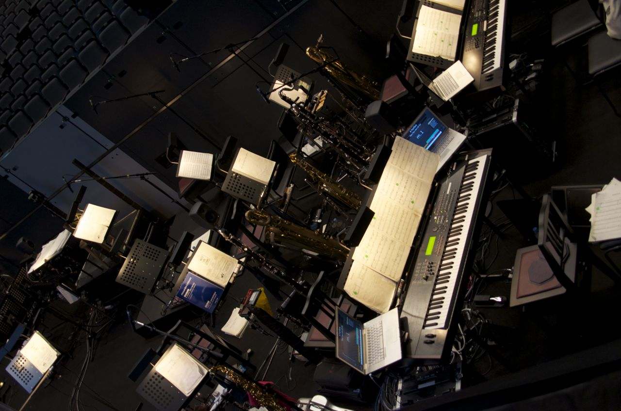 Orchestra pit of West Side Story, Tokyu Theatre Orb, Tokyo in 2012